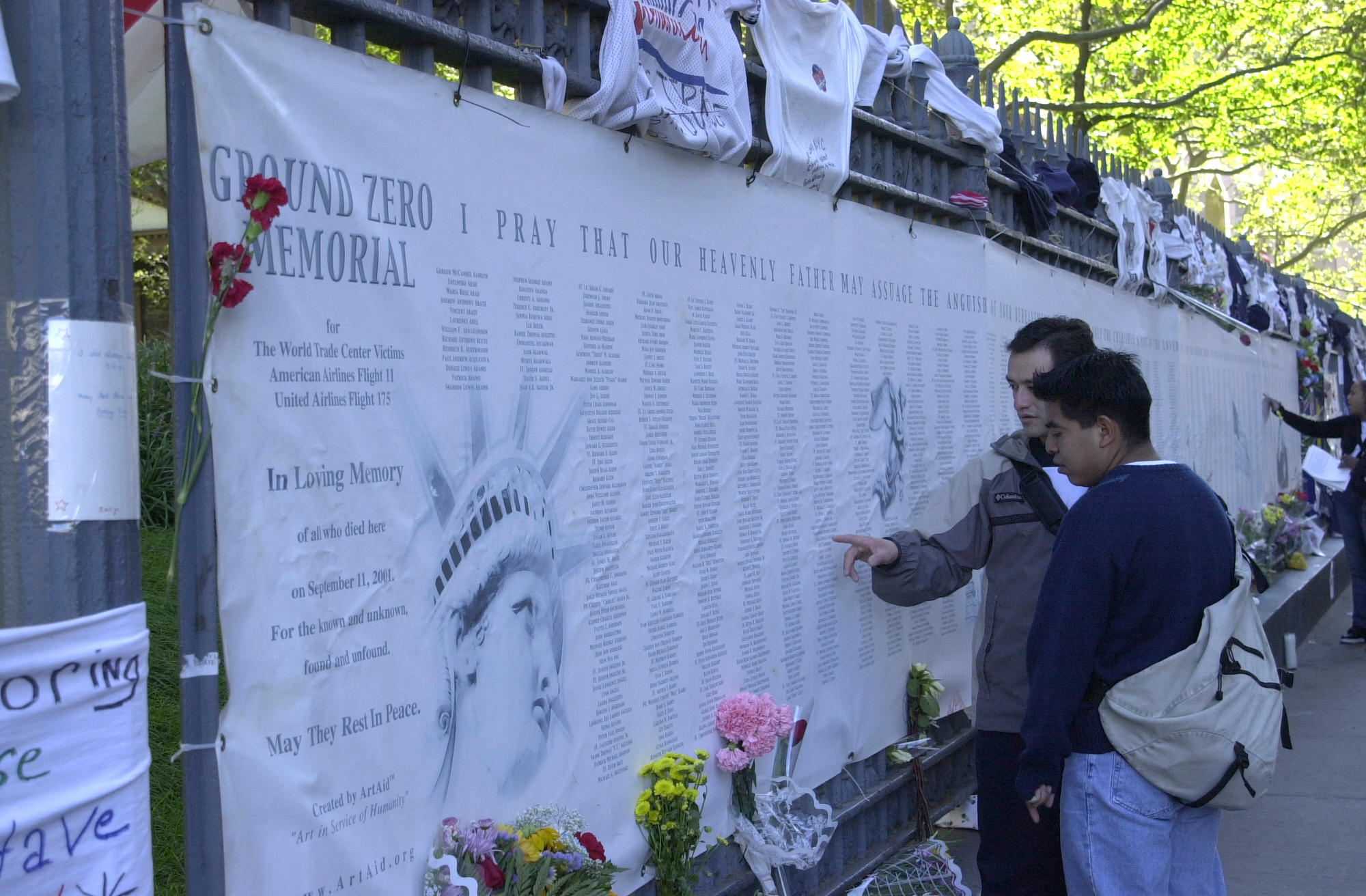 New York, NY, September 12, 2002 -- People stop to read from the list of the victims of the World Trade Center last September 11th. Photo by Lauren Hobart/FEMA News Photo